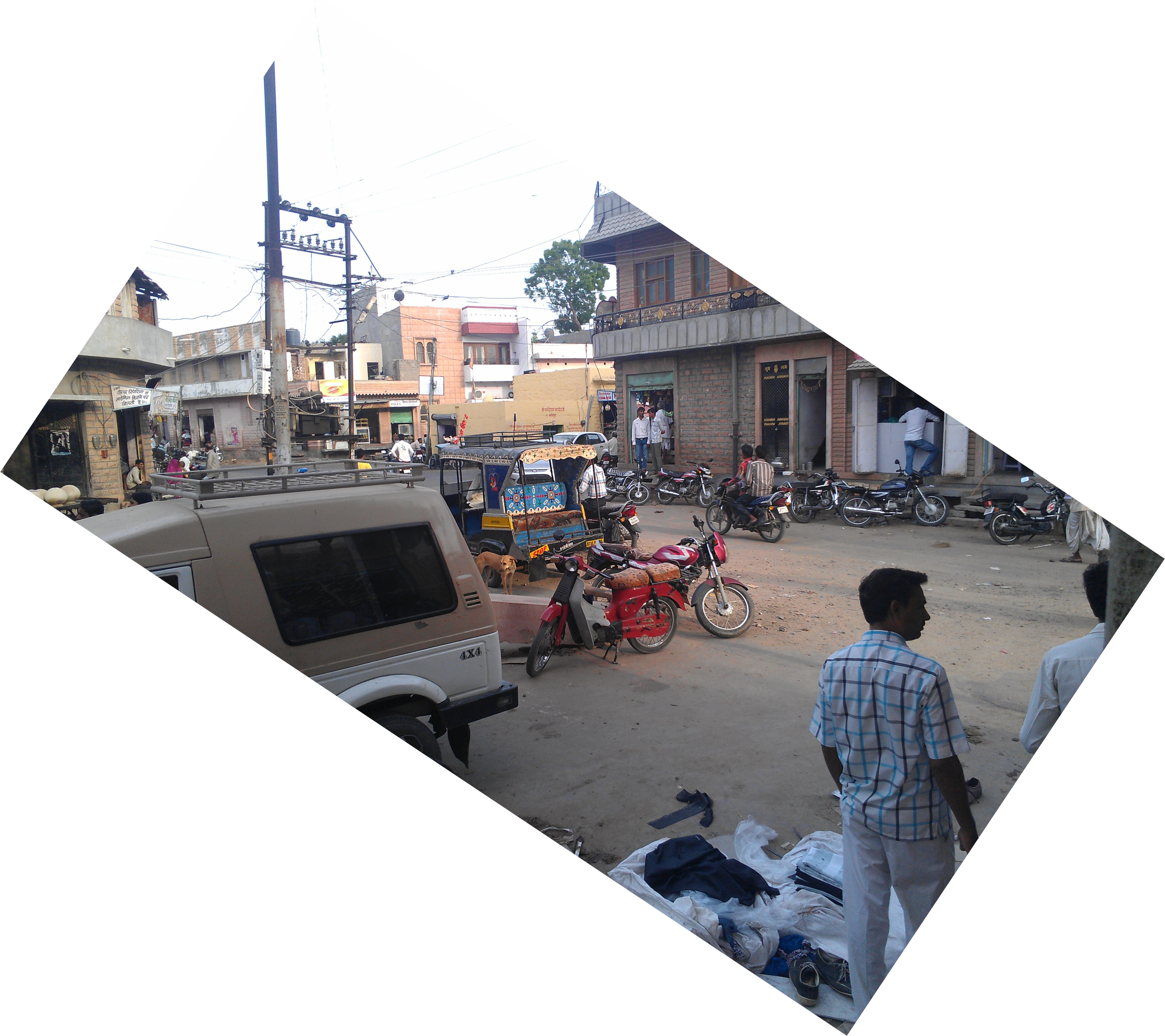 Balotra